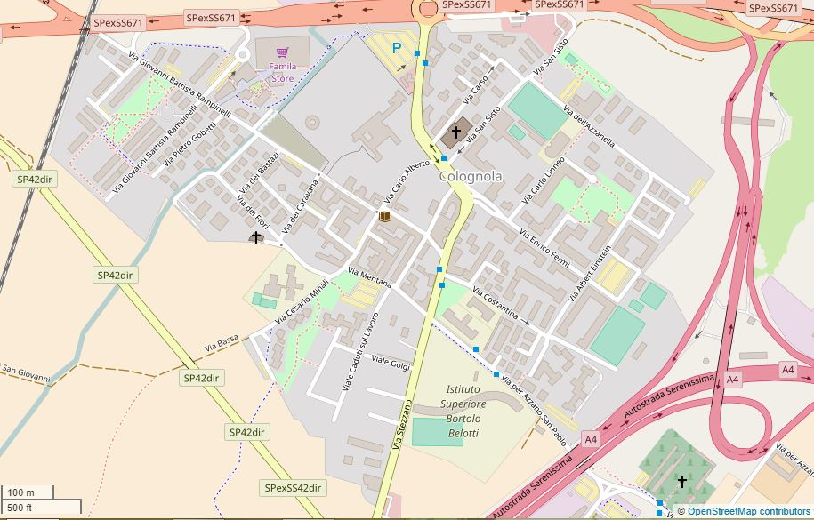 Bergamo, Colognola) This map may be incomplete, and may contain errors. Don't rely solely on it for navigation.